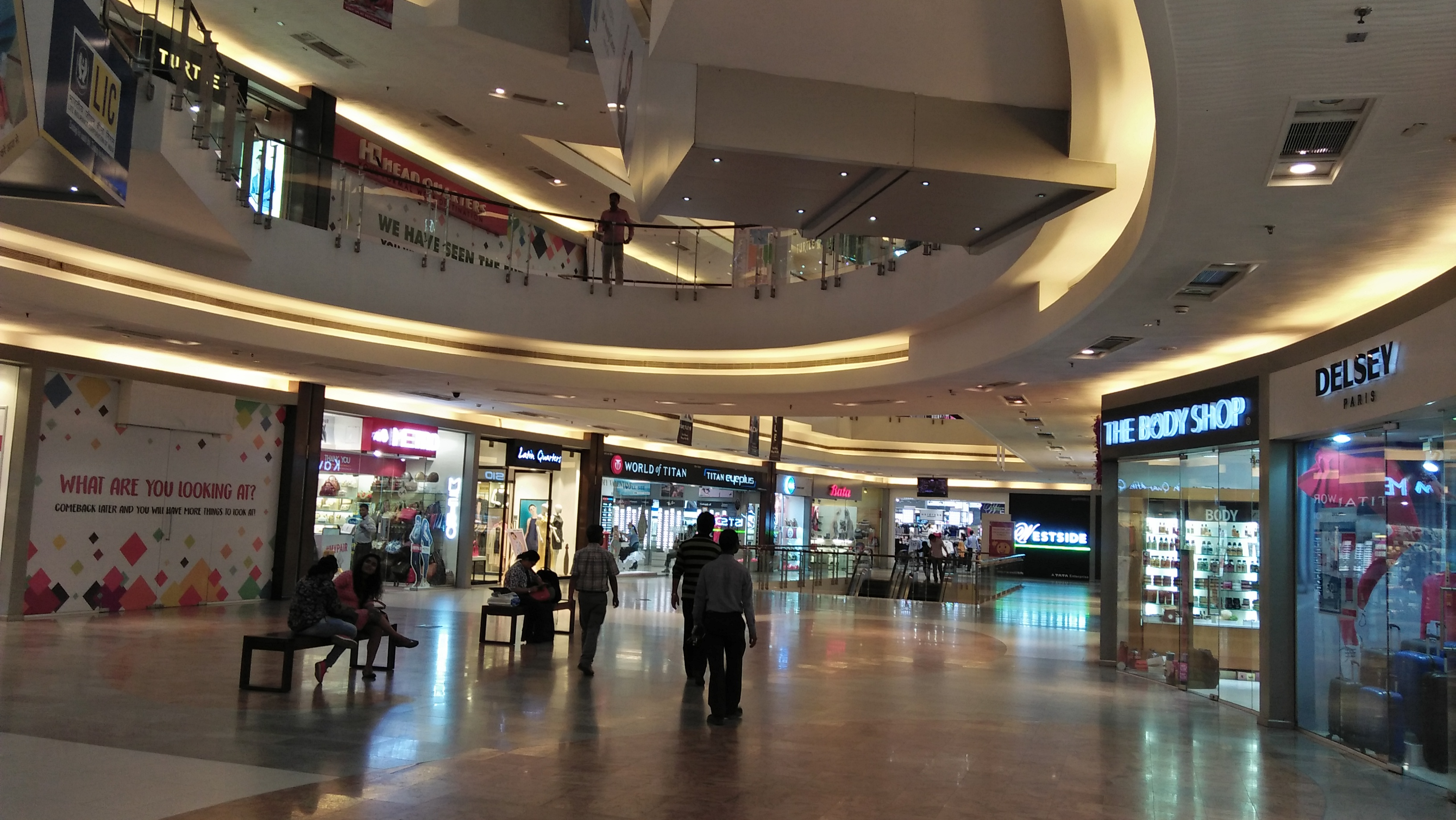 Photographed in Kolkata.